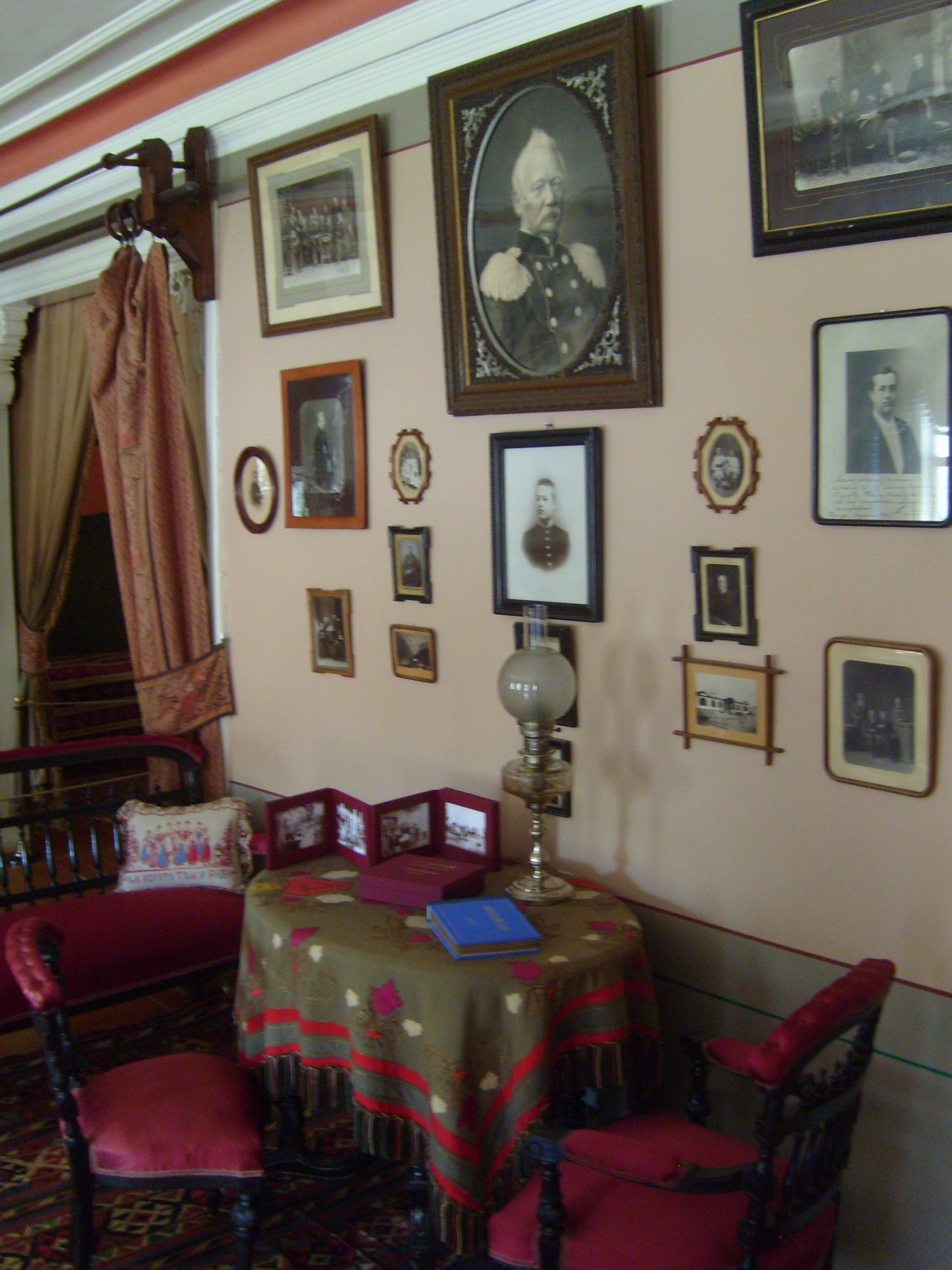 Tchaikovsky's reception room, with a portrait of his father